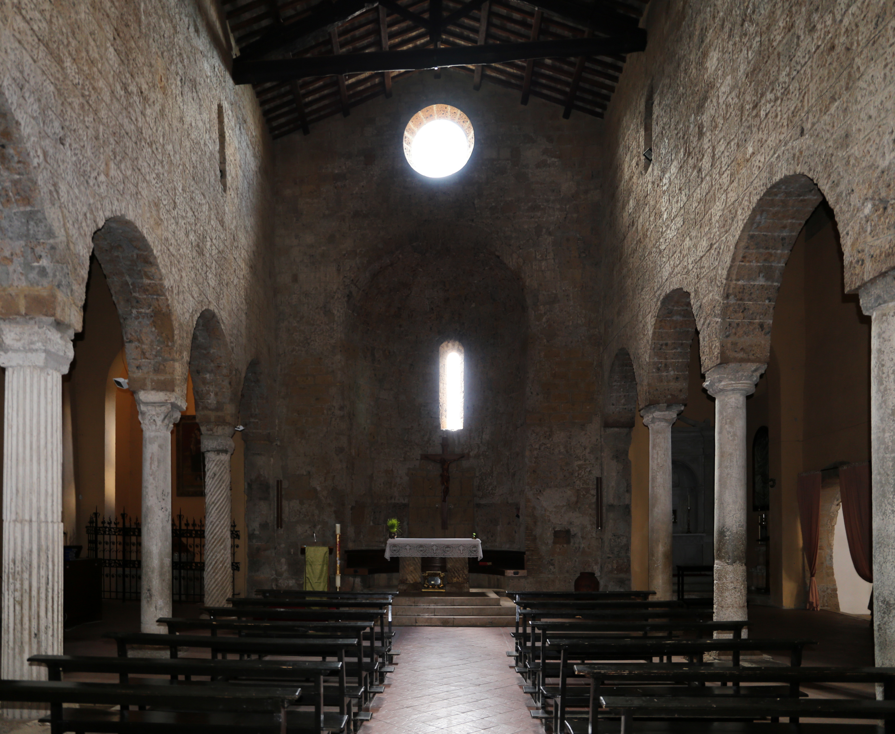 Santa Maria Maggiore (Cerveteri)